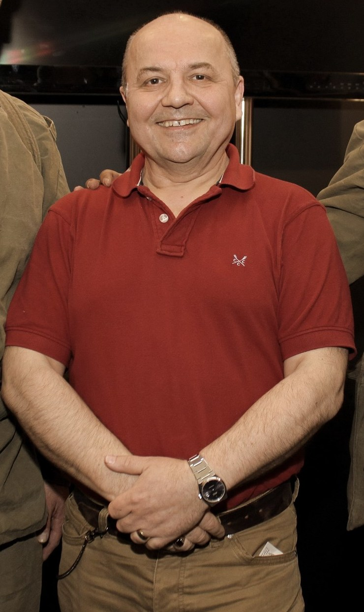 Wiktor Suworow in Warsaw (2011).